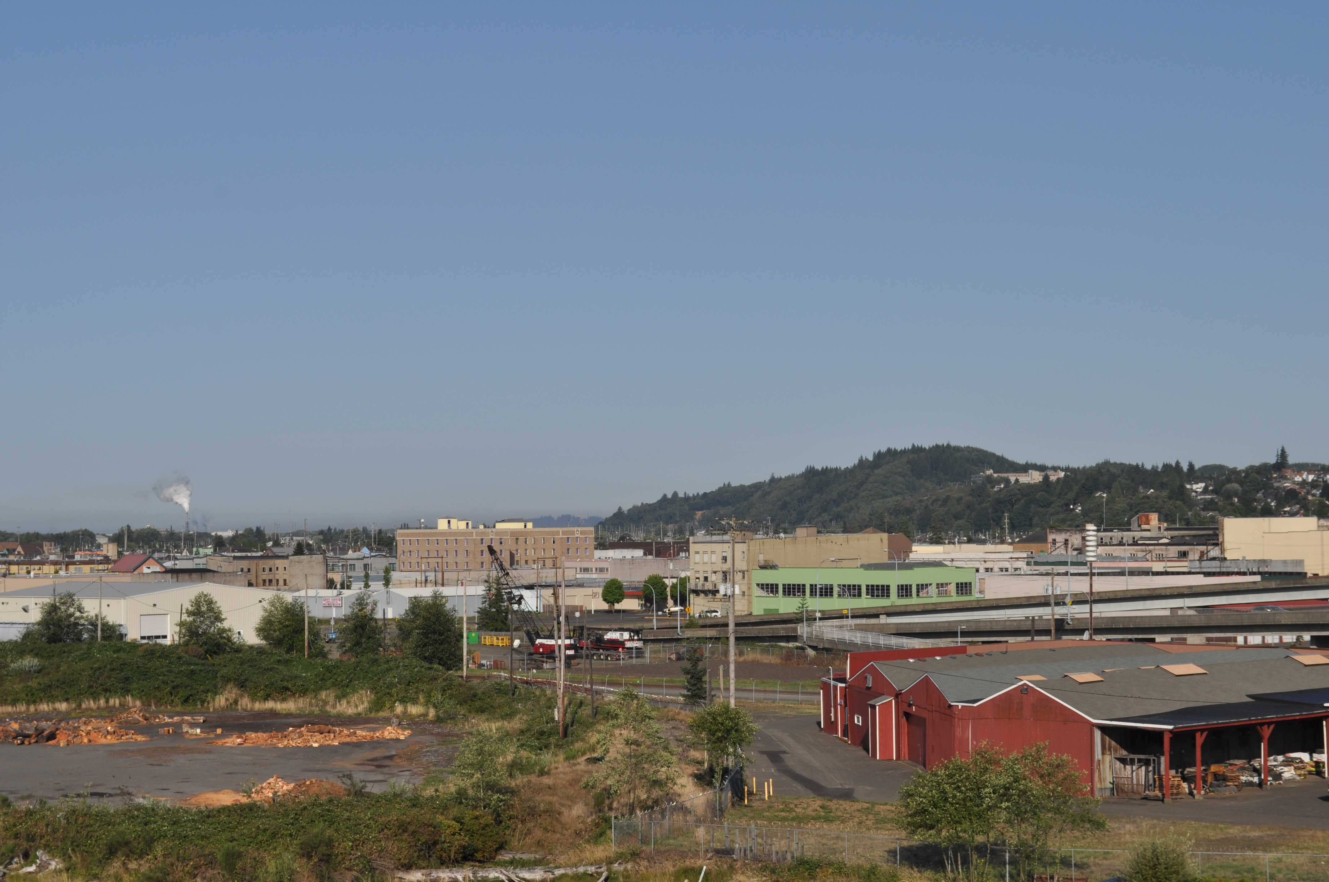 Looking at downtown, Aberdeen, Washington, USA, from the U.S. Route 101 bridge.